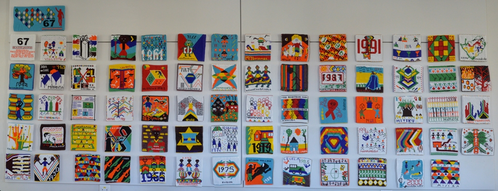 route 67, 30 beaders were empowered through a series of workshops to create artworks based on 67 quotes by Nelson Mandela, using their traditional Nguni beadwork skills This media shows a South African Protected Site with SAHRA file reference New.